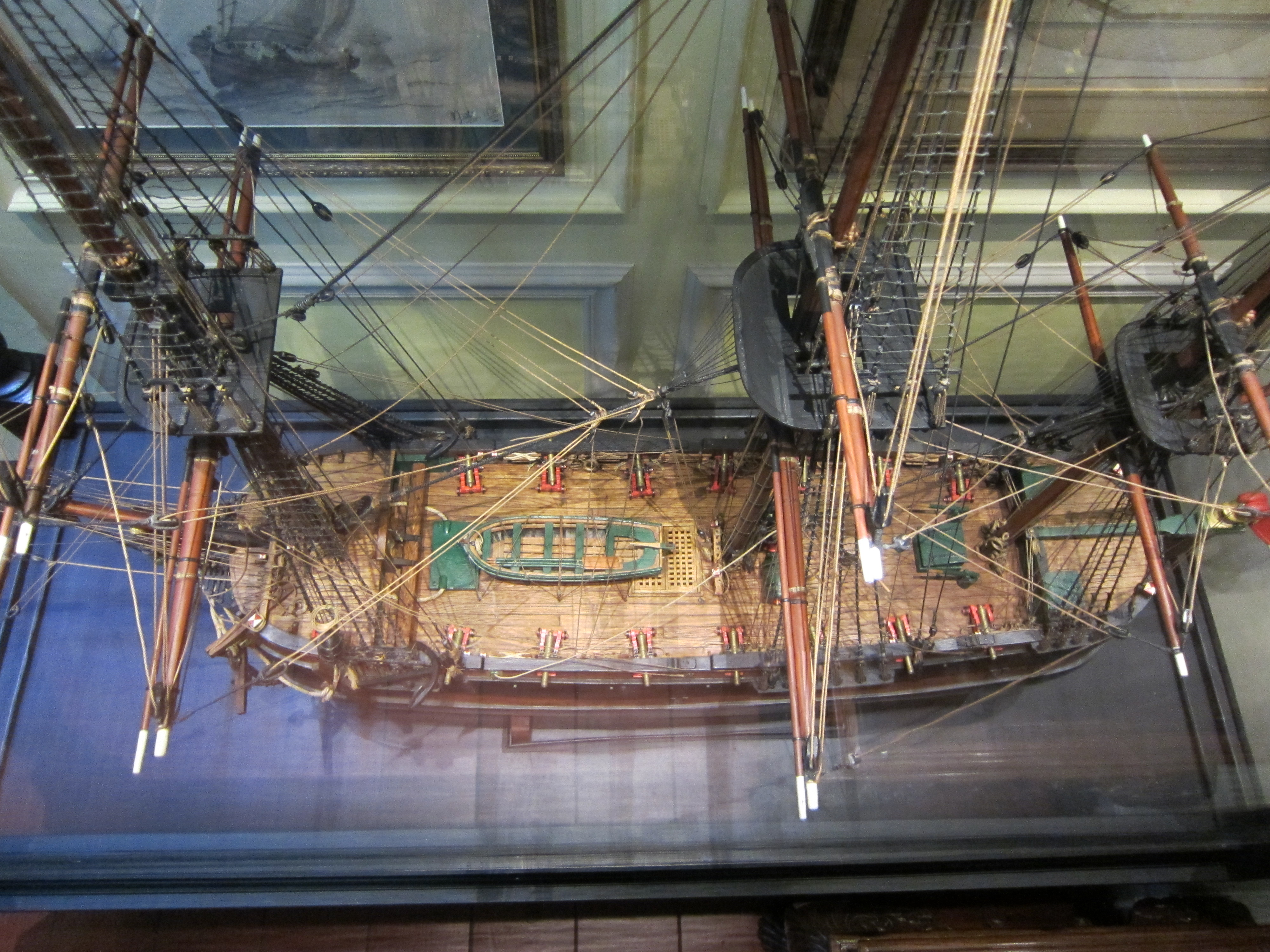 Deck view of the 1/30 Meermin model